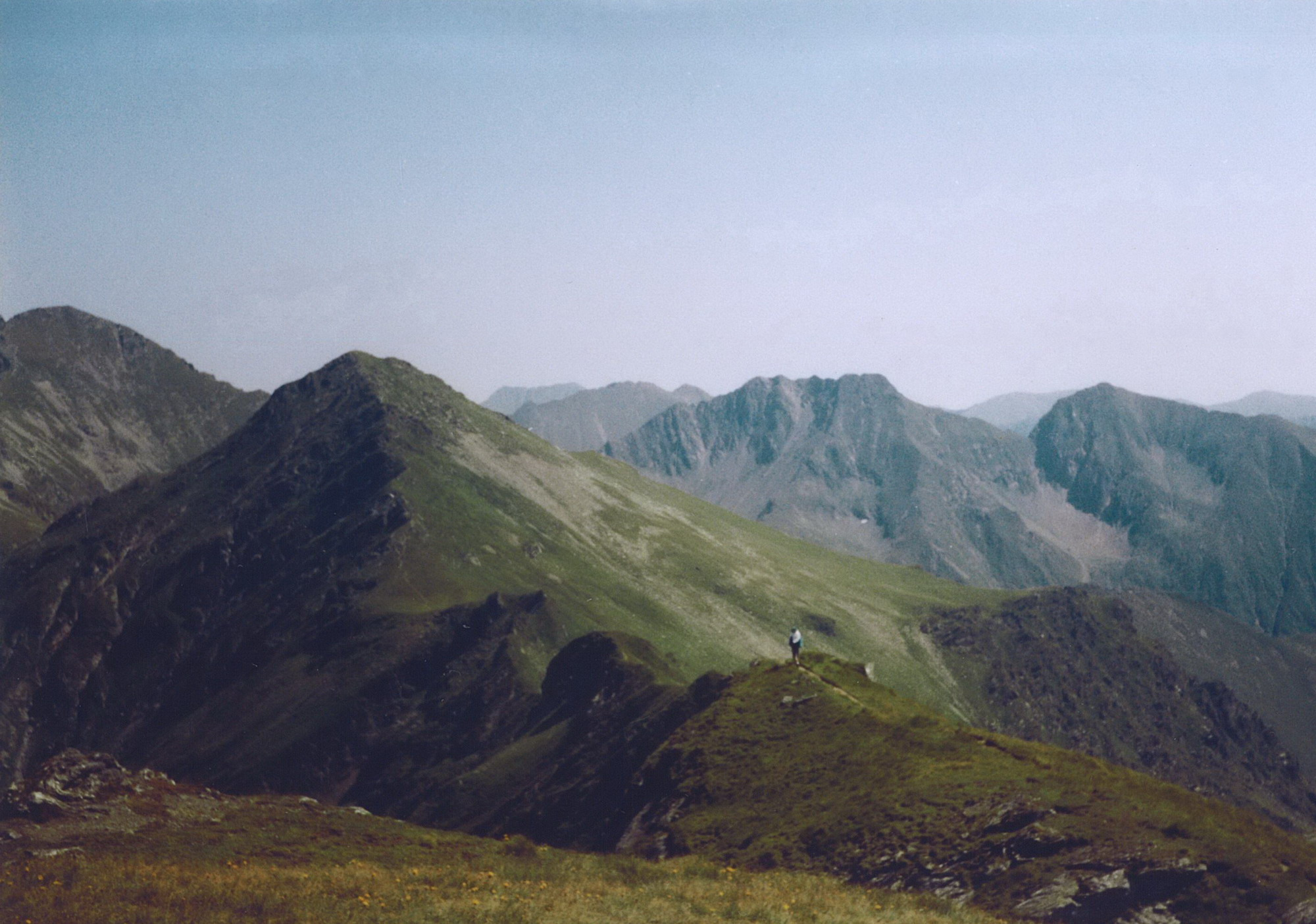 Est from Paltinu Peak